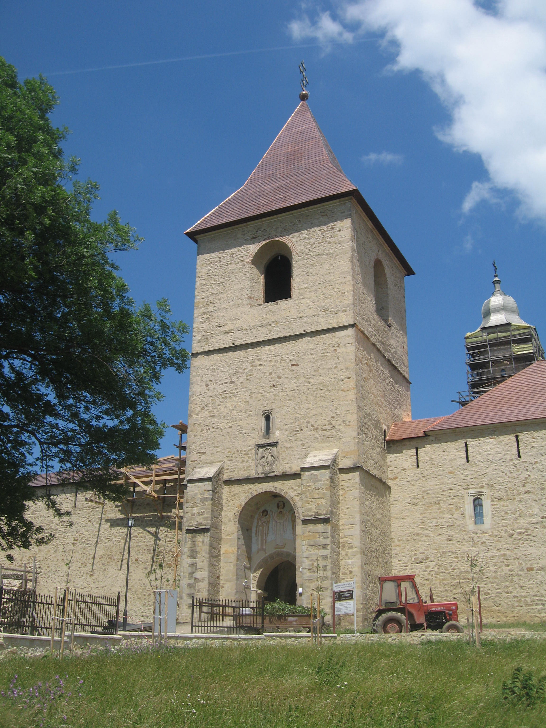 Dragomirna Monastery